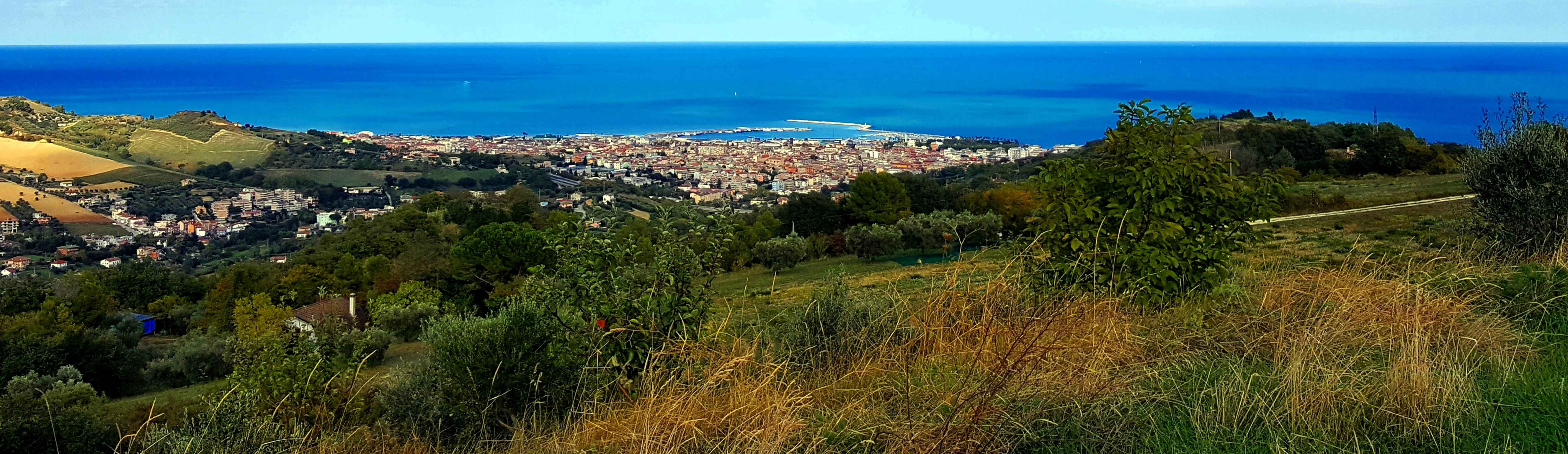 Panorama view of the city of San Benedetto del Tronto on the Adriatic Sea from the surrounding hills